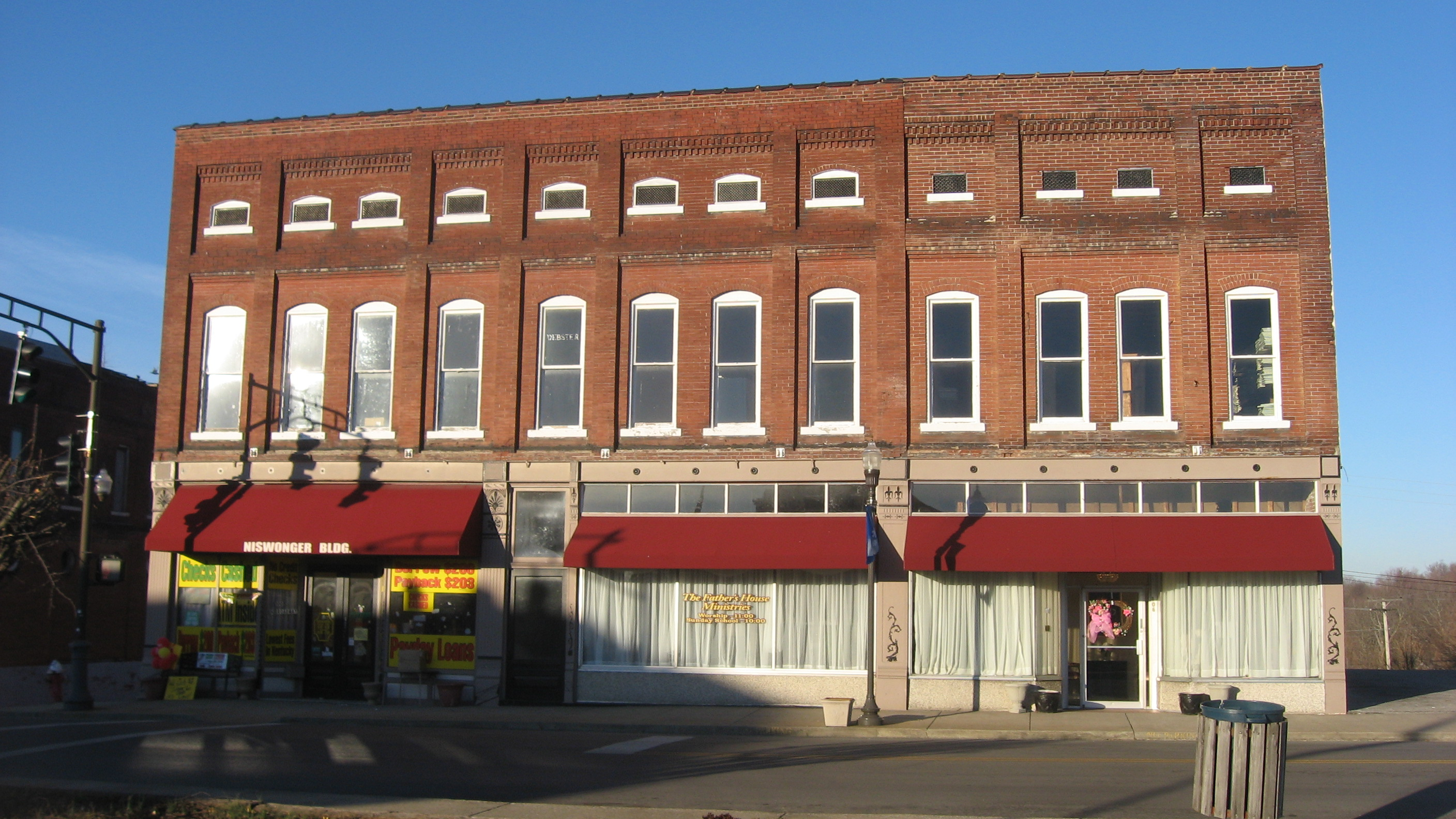 Buildings on the northwestern corner of the junction of Main (Kentucky Route 120) and Broadway (Kentucky Route 109) Streets in Providence, Kentucky, United States. Built in 1911, they are part of the Providence Commercial Historic District, a historic district that is listed on the National Register of Historic Places.